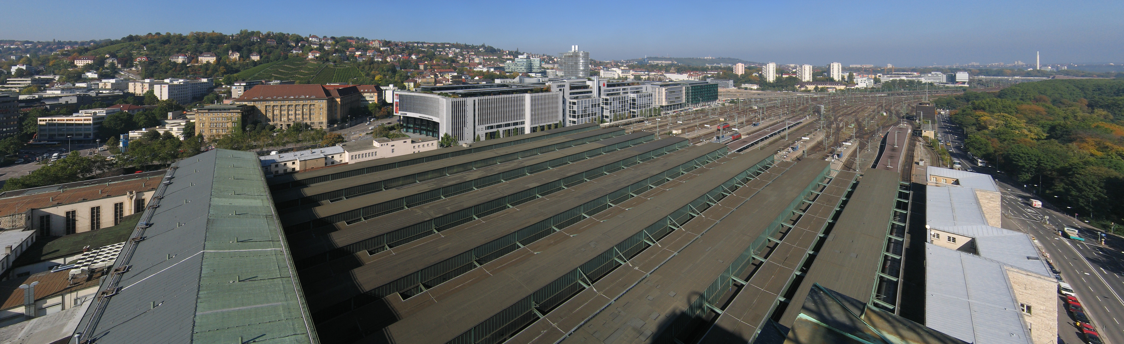 photo taken from the roof of the station tower own image, stitched from 6 photos See also File:Stuttgart Hauptbahnhof02 2005-10-14.jpg